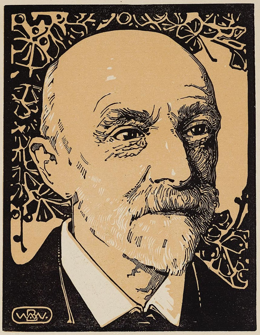 Portrait of the Dutch painter Maurits van der Valk